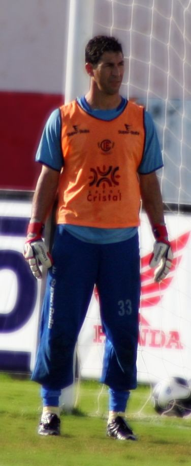 Sérgio in Itumbiara's practice.